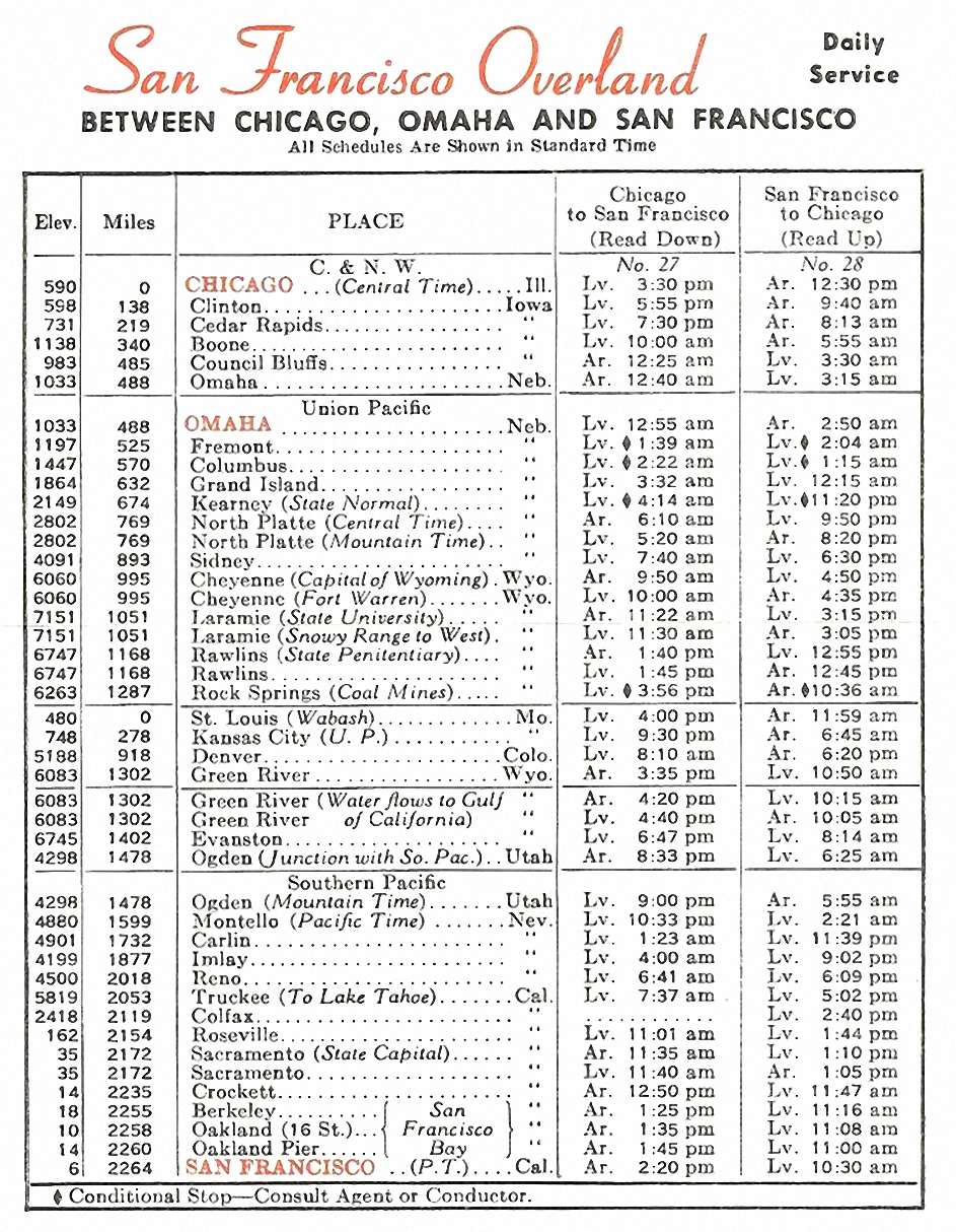 Scan Francisco Overland Schedule (April, 1951) New!